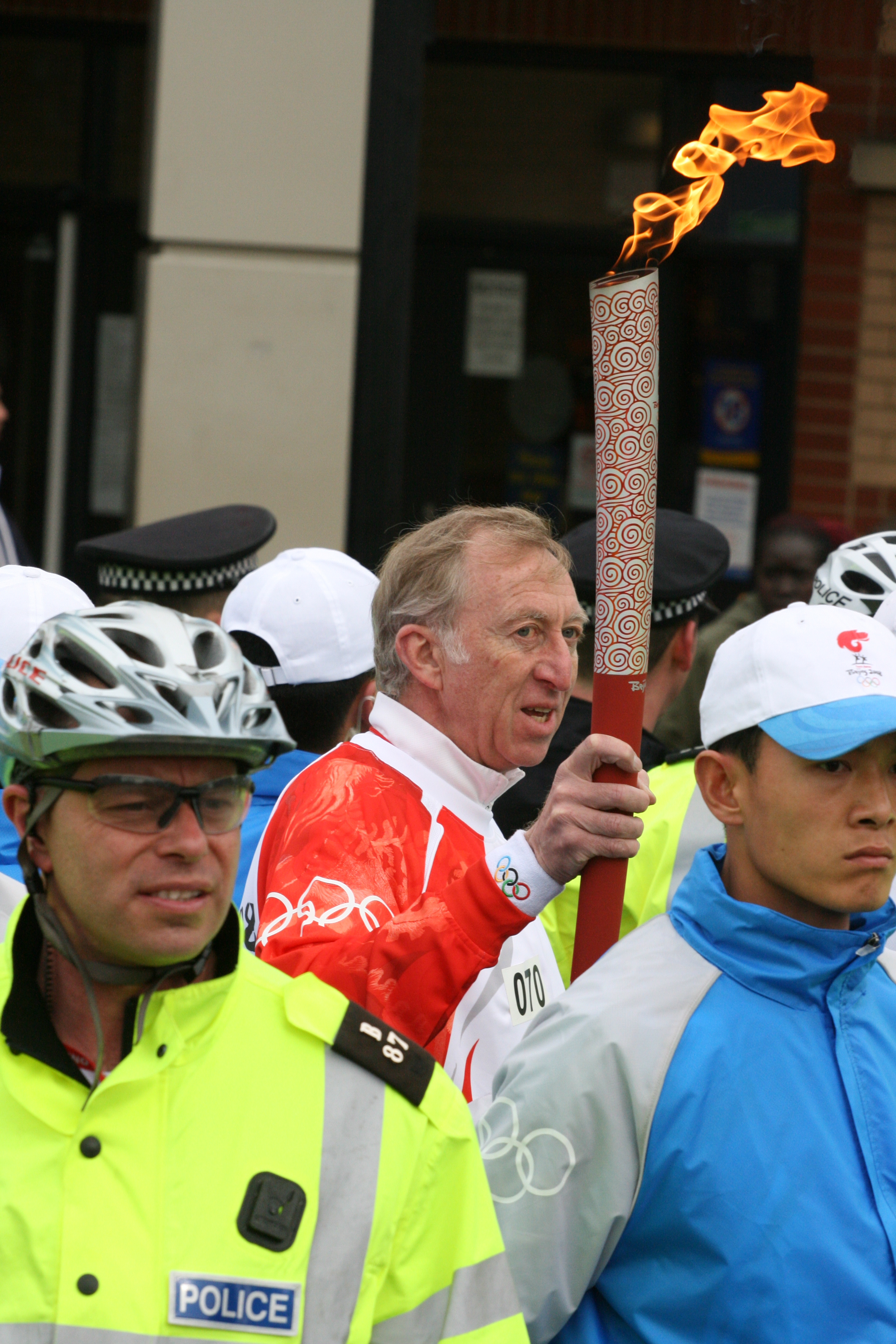 Olympic Torch for the 2008 Summer Olympics passes through Stratford in London. Stratford will be a major location for the 2012 Summer Olympics.